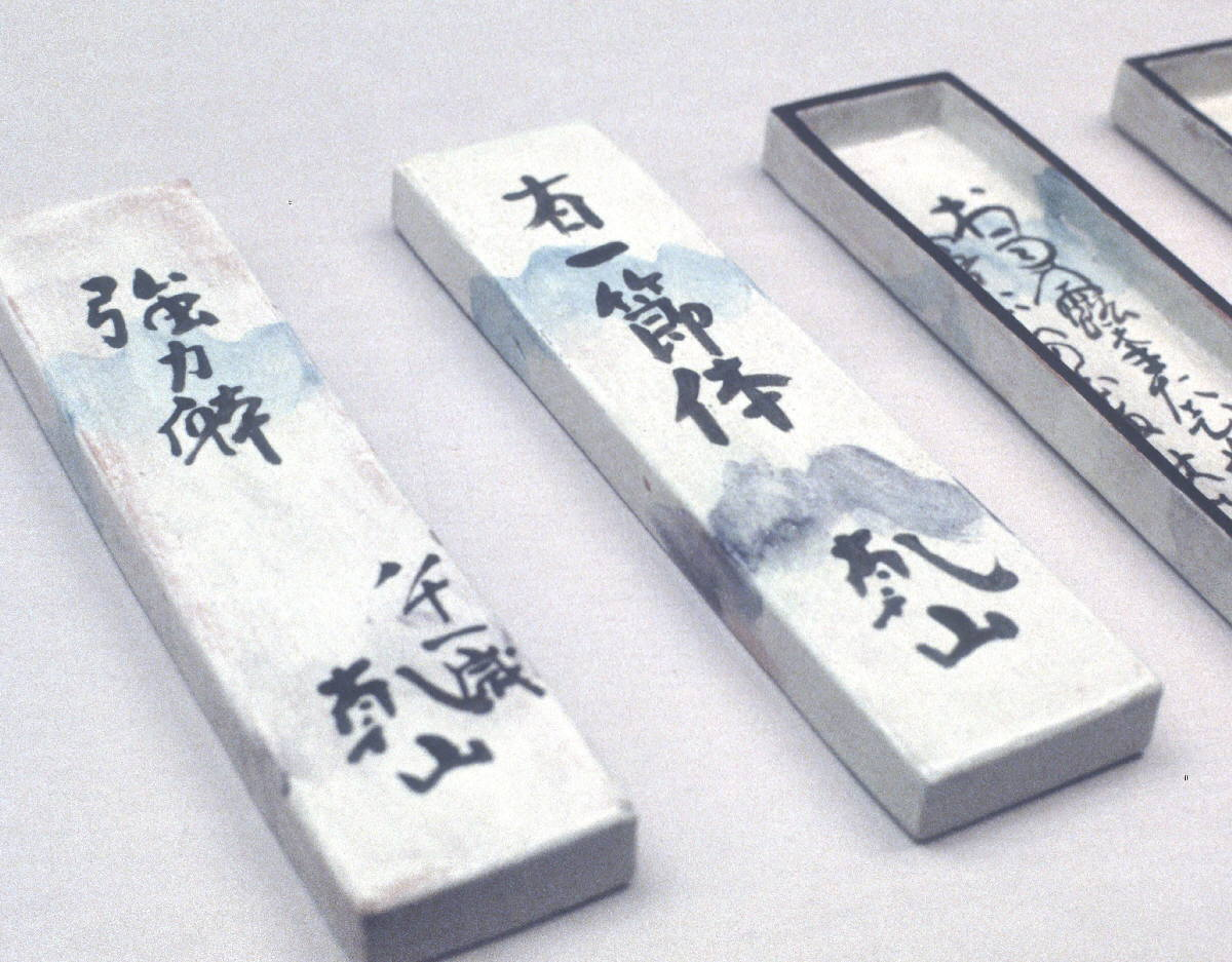 Square Dishes, by OGATA KENZAN(1663, Kyoto-1742, Edo), Japan, left Two show bottom, glazed pottery , early 17th century, Tokyo National Museum, Tokyo, Japan